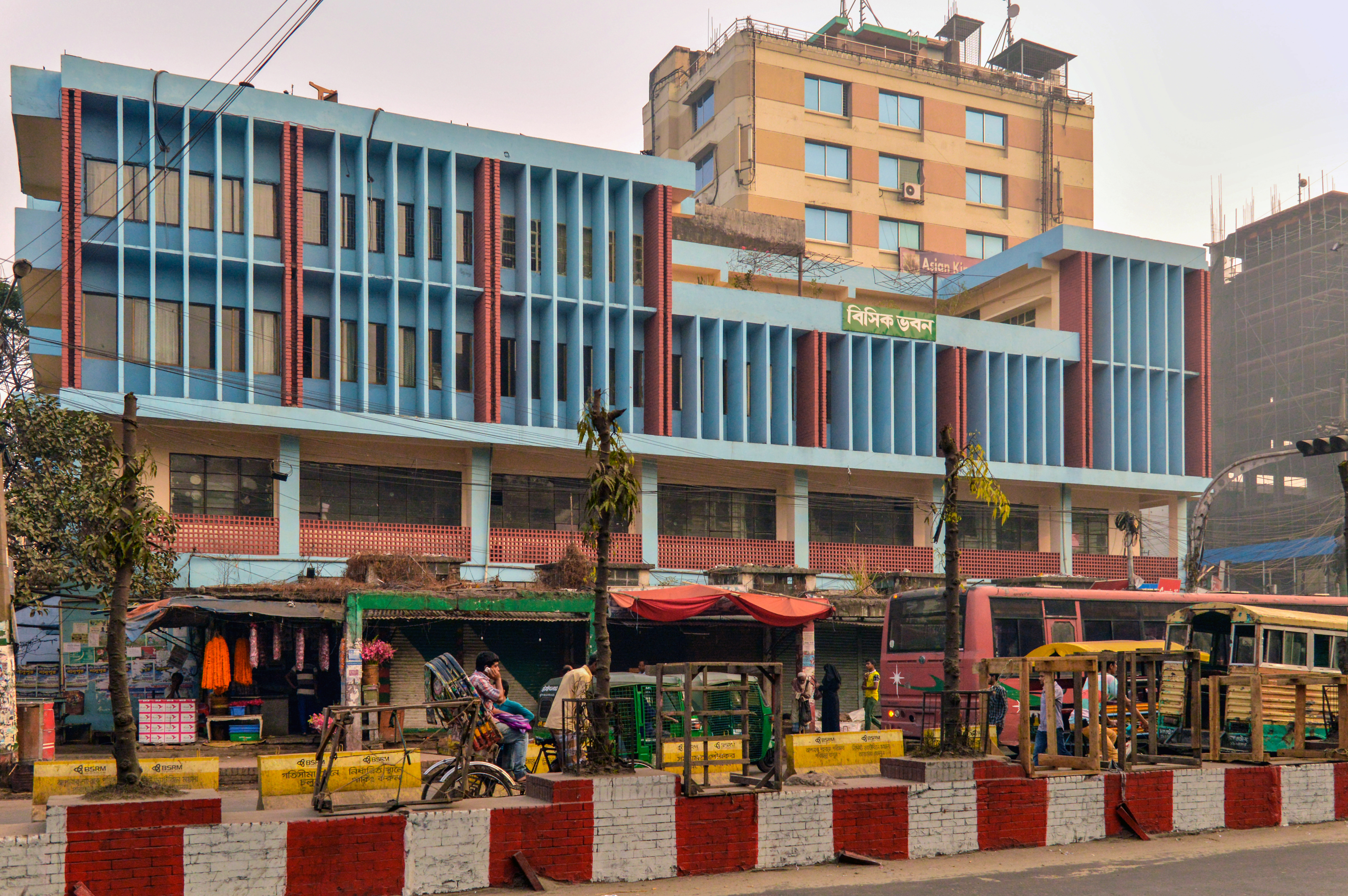 BSCIC, Chittagong Regional Office, located at Agrabad, Chittagong.